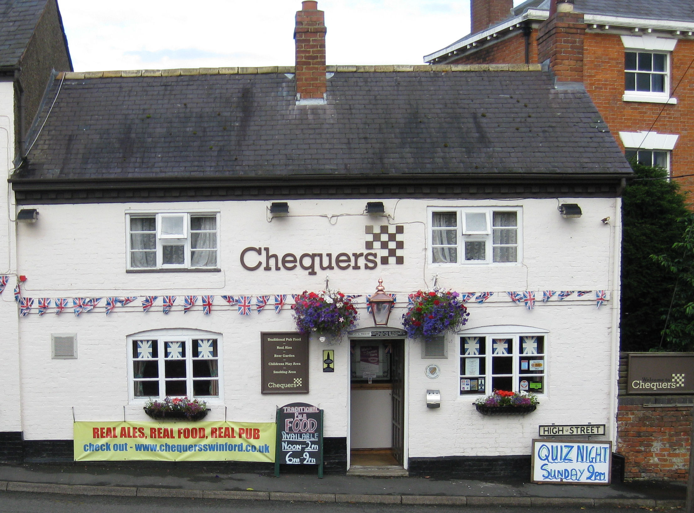 Chequers pub, High Street, Swinford, Leicestershire, LE17 6BL